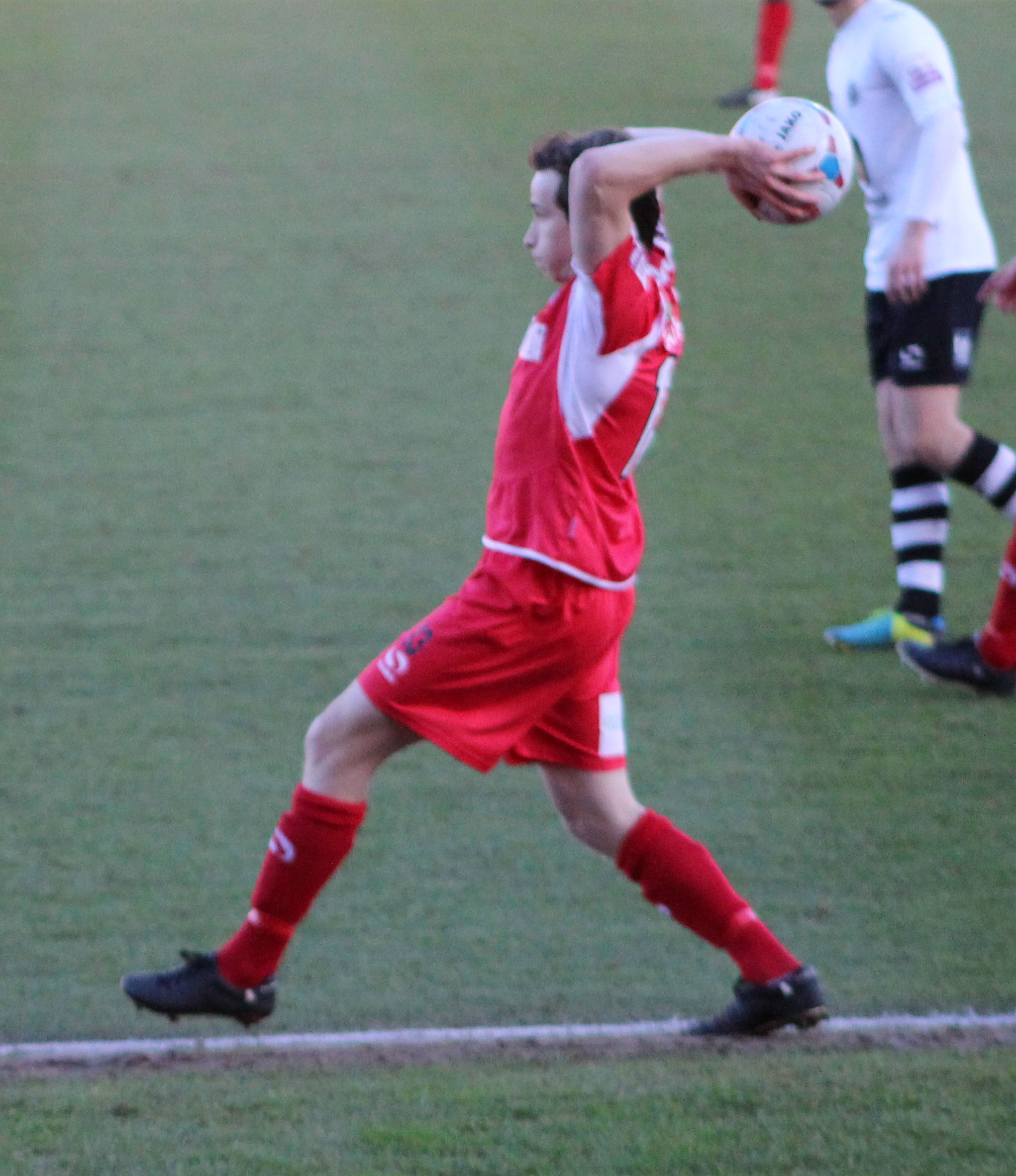 Danny Sleath playing for Nuneaton Town.